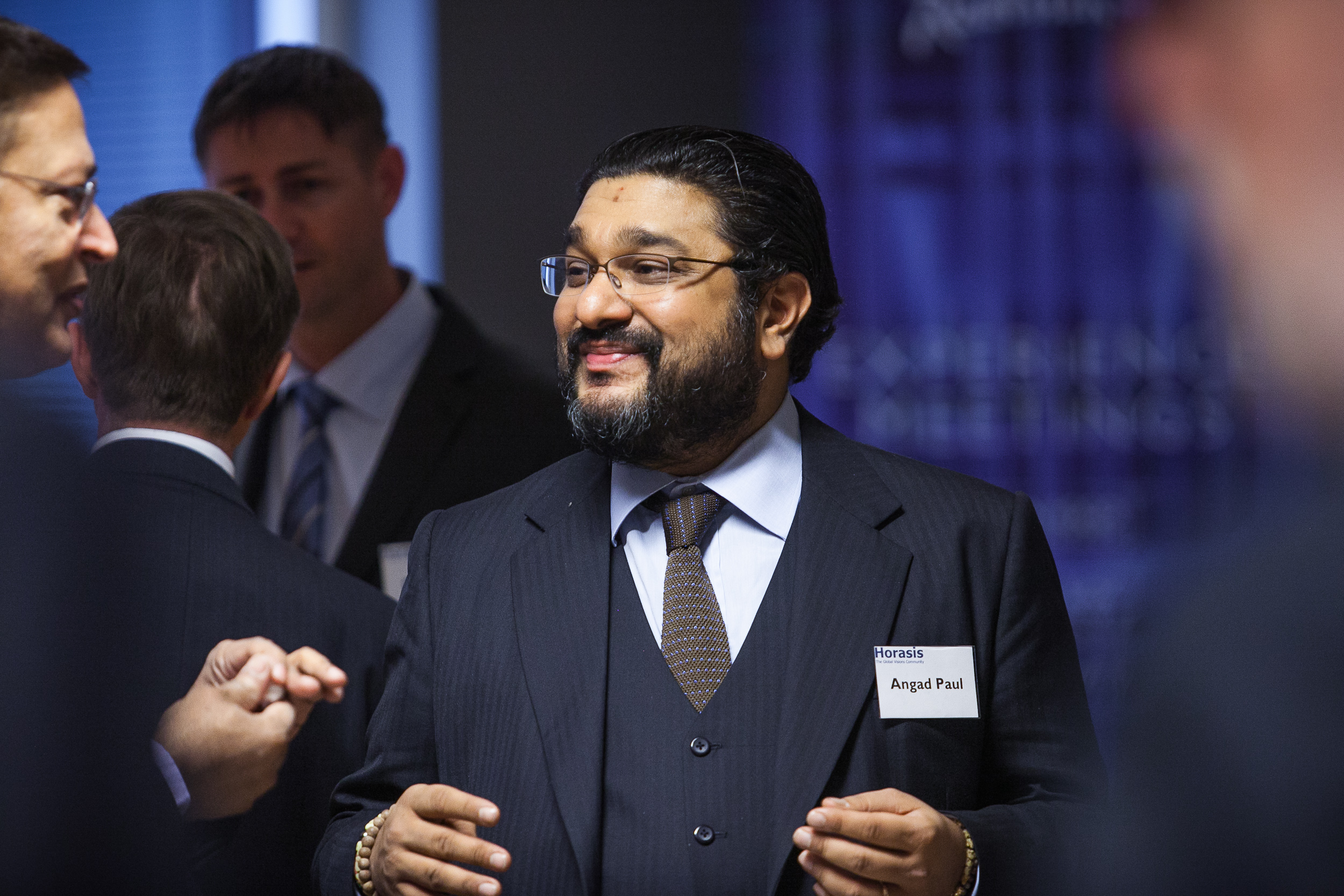 Horasis Annual Meeting, 22-23 January 2013